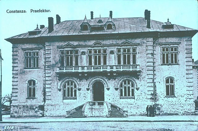 Constanța County Hall during the interbelic period, illustrated in an early 20th century picture. The historical building was built between 1903-1904 and today it hosts the Military House of Constanța.